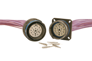 The ARINC 801 fiber optic terminus is the next generation of high density, butt joint interconnect technology. With its standard 1.25 mm ferrule and sleeve, the ARINC 801 terminus is designed for both multimode and single-mode applications and is compatible with standard LC termination processes.